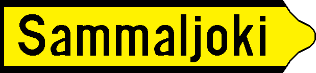 Old Finnish village or municipal road signpost, used from 1937 to 1960s.